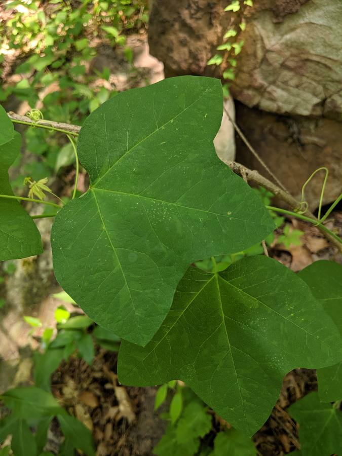 Passiflora lutea, yellow passion flower, leaf